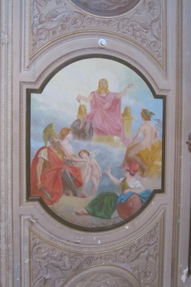 MUSEO NACIONAL DE RIO DE JANEIRO